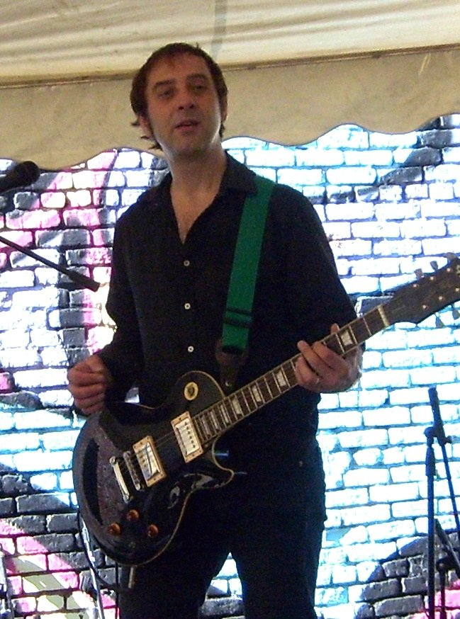 Troy Gregory performing at the Detour Magazine launch party summer 2007